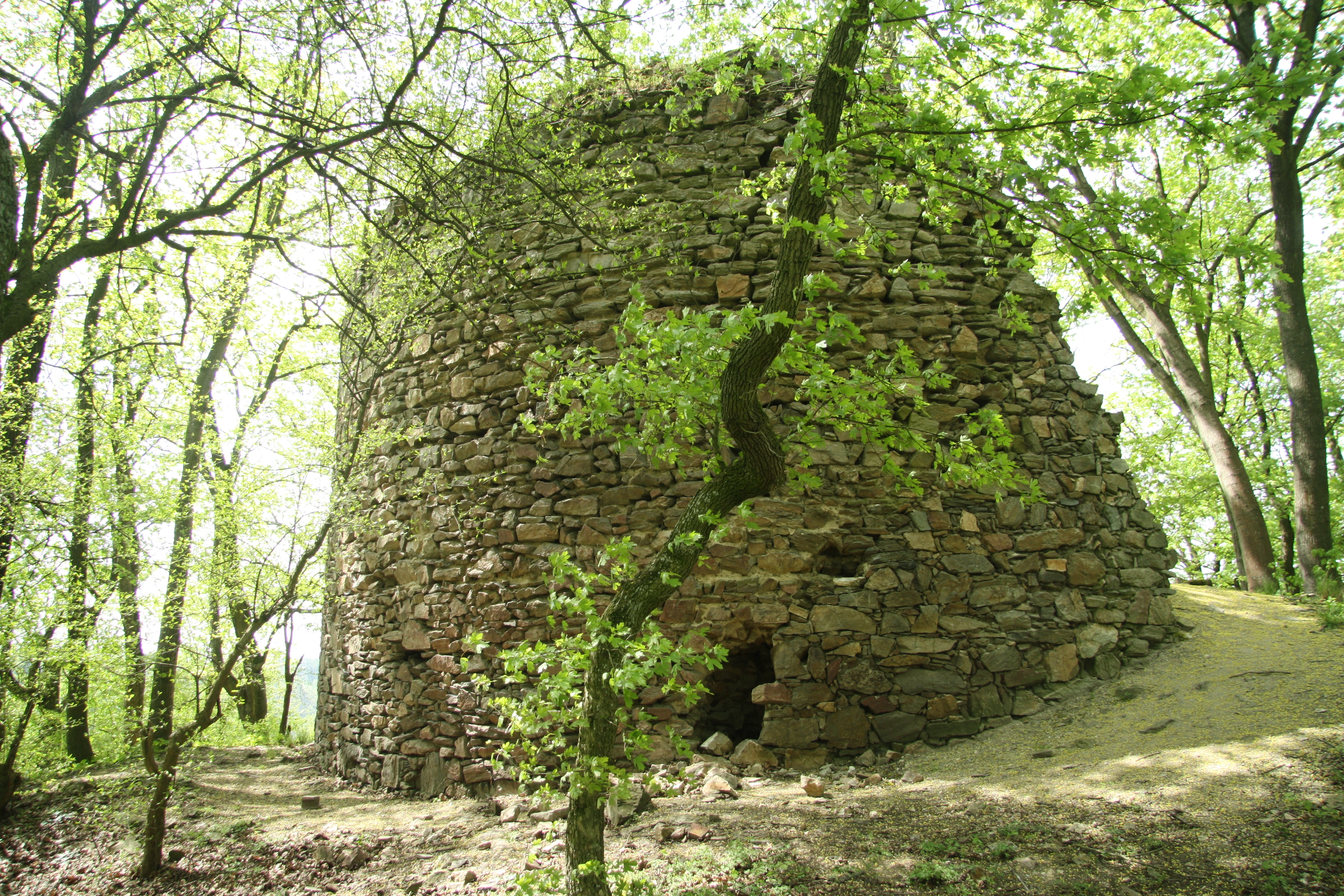 Central part of Kraví hora castle near Kuroslepy, Třebíč District.